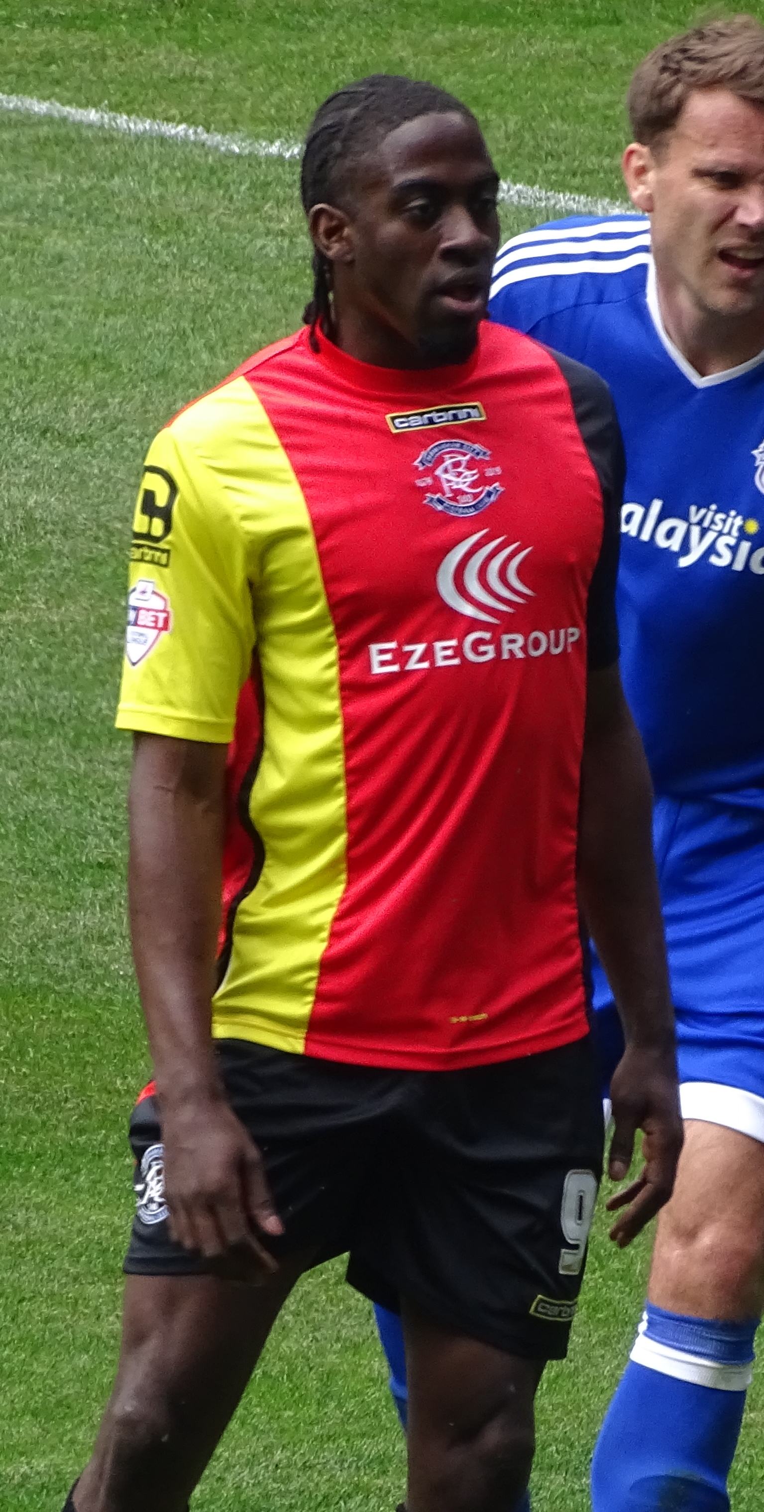 Clayton Donaldson playing for Birmingham City against Cardiff City at Cardiff City Stadium on 7 May 2016